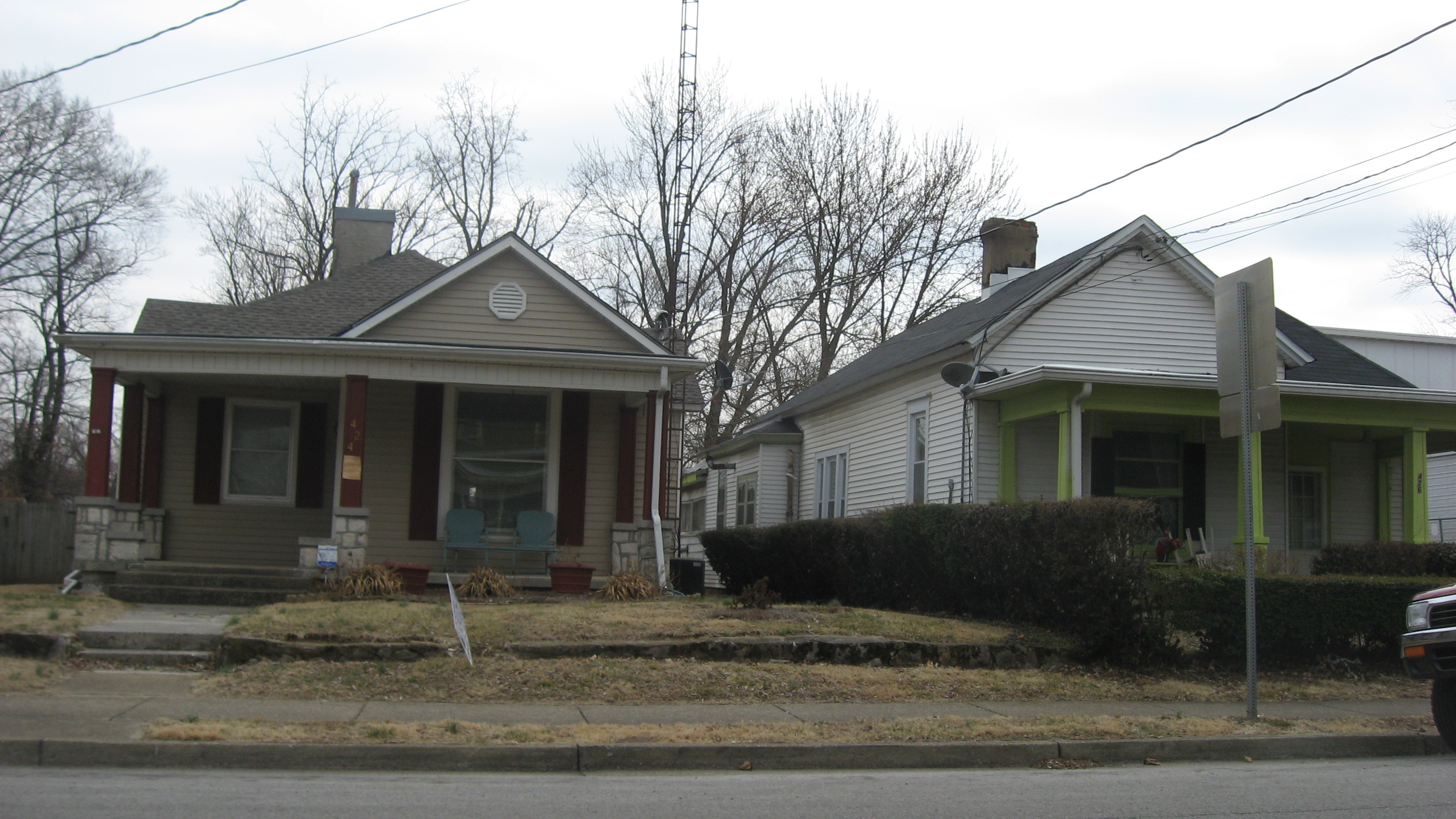 Houses on the southern side of the 400 block of State Street in Bowling Green, Kentucky, United States. This neighborhood is part of the Shake Rag Historic District, a historic district that is listed on the National Register of Historic Places.